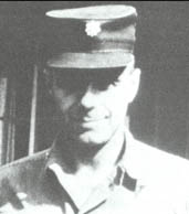 Lieutenant Colonels Mulamba and Rattan